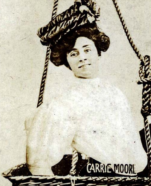 Enlargement of postcard showing Carrie Moore and Kitty Gordon